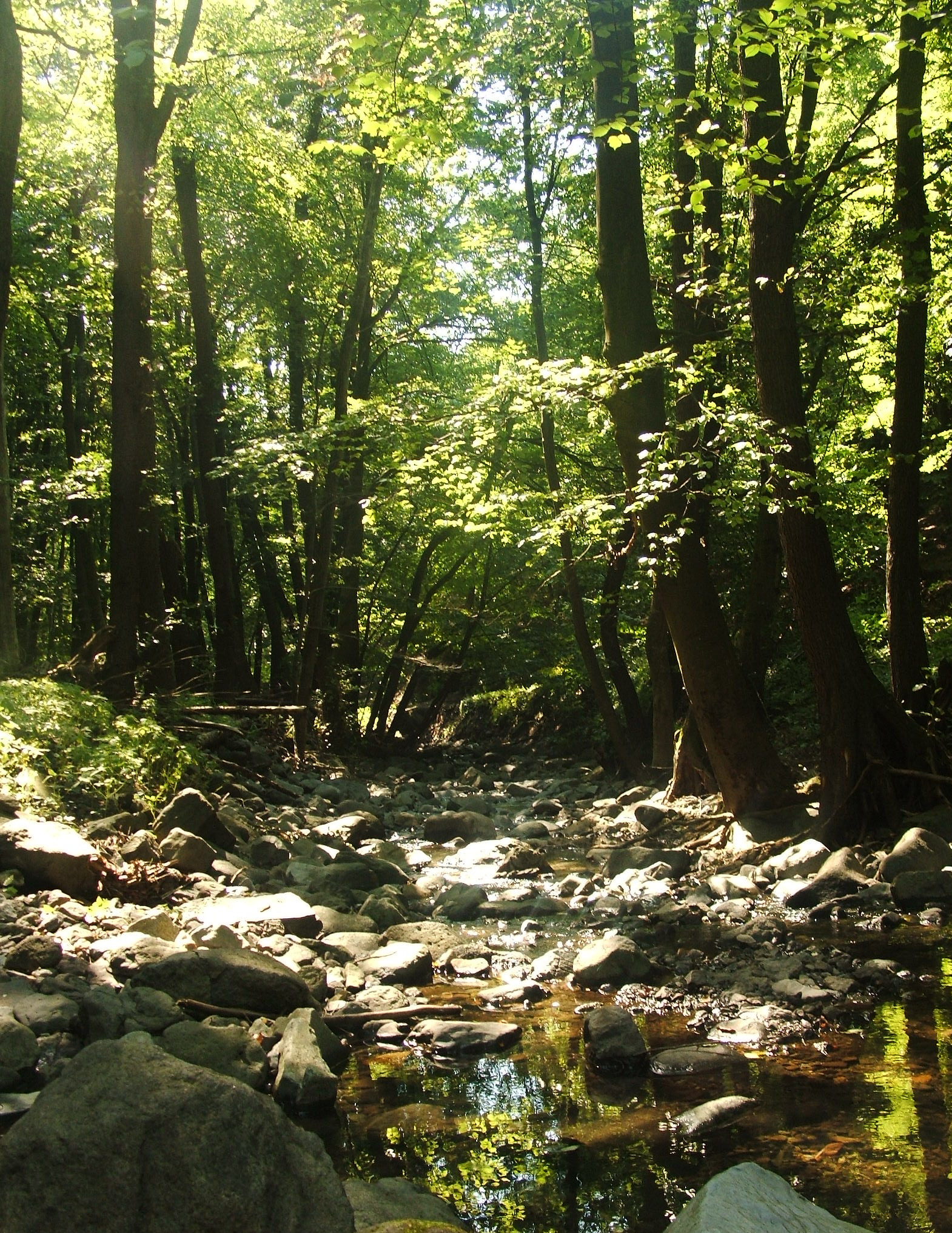 Csörgő Creek in the Mátra mountains, Hungary